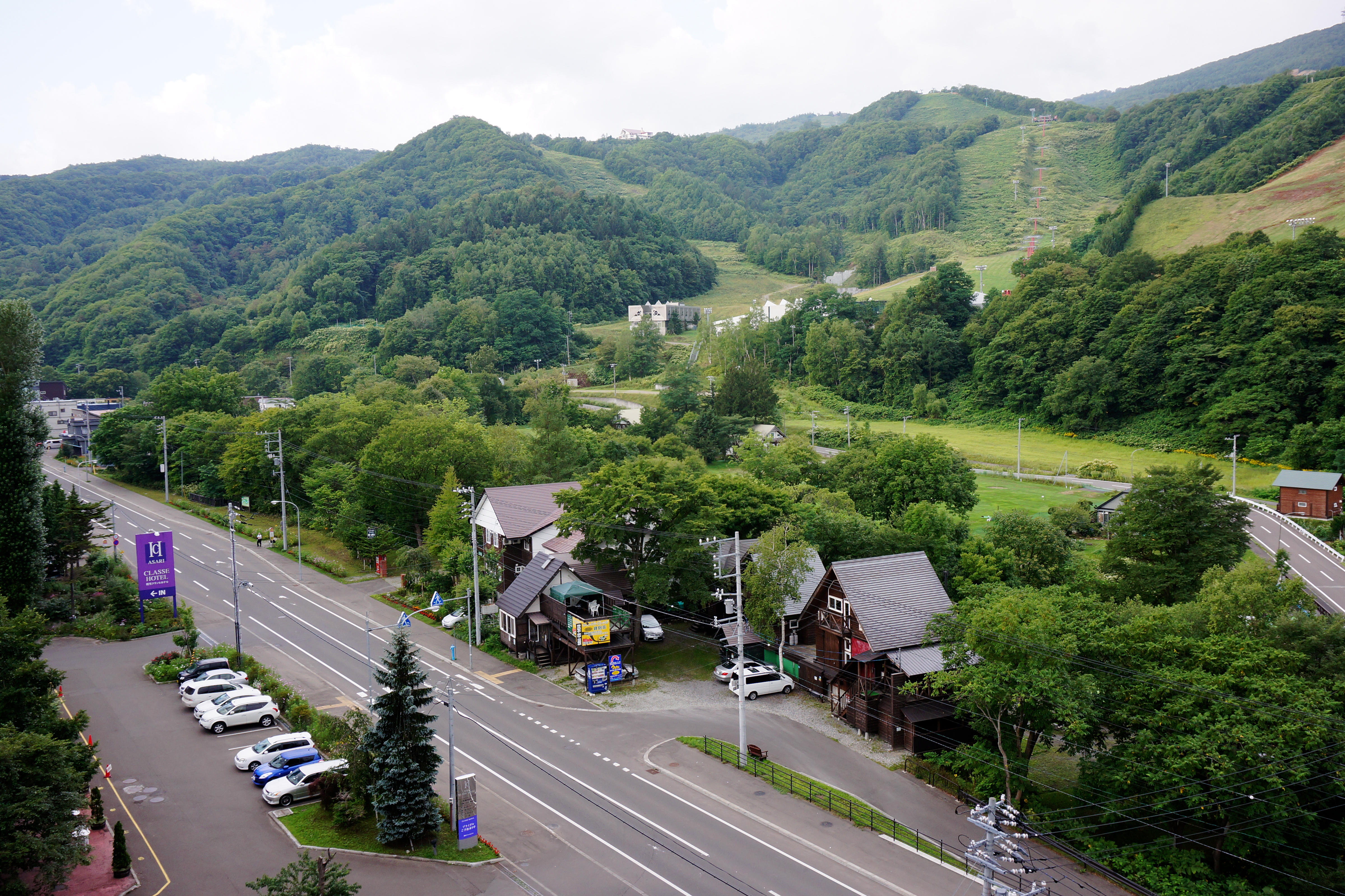 At Asarigawa Onsen in Otaru, Hokkaido prefecture, Japan.